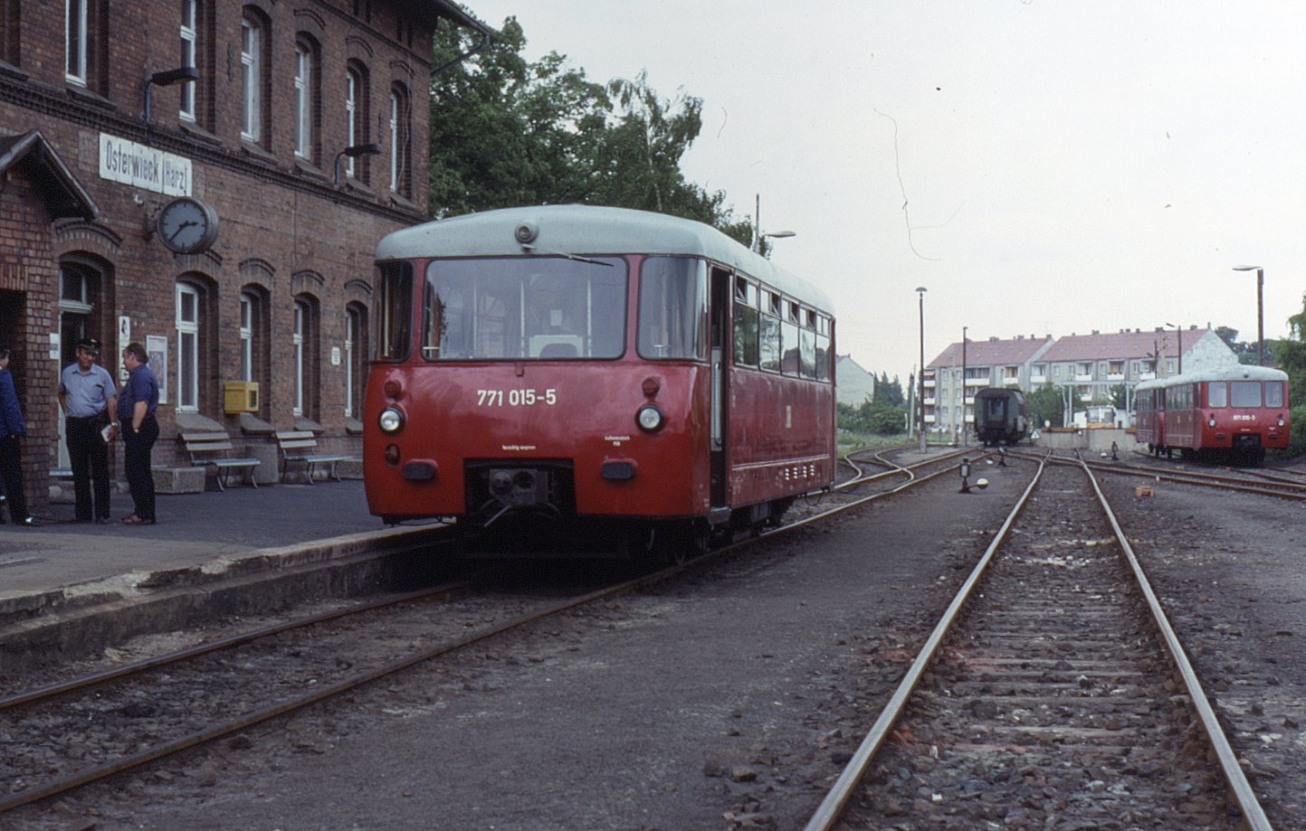 One of countless branches in the former East Germany which was operated by class 771 "Ferkeltaxe" railbuses. On 29 May 1992, 771.015 is seen on train 16421, 15:01 Osterwiecke (Harz) to Heudeber-Danstedt. An odd working, from my notes the train up the branch terminated at the station before the end of the line, Osterwieck West. It then ran empty to the end of the branch. As a result, I had a kilometer or two to walk, but easily made the train back. Unusual for a dead end German branch, there were two other trains stabled there, one loco hauled and another class pair of class 771s. Both can be seen here in this photo.